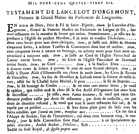 Extract of the will of Lancelot d'Orgemont (1286) including the words "Langue de Oc" and "Patria Occitania"